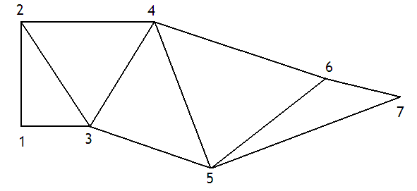 Triangle strip